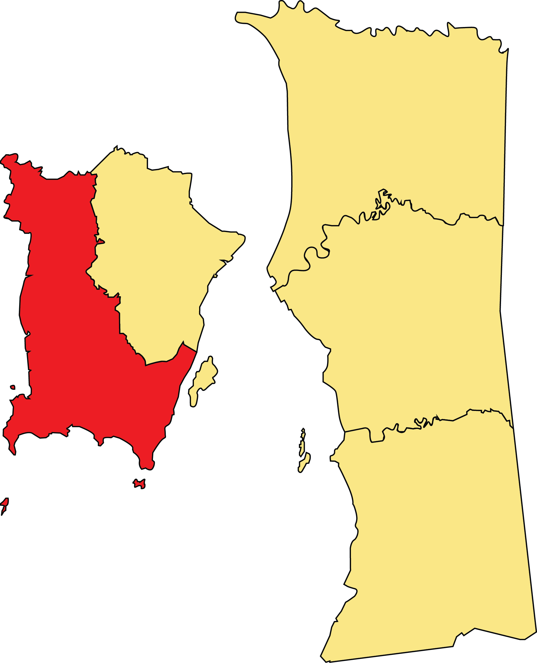 Location of Southwest District within the state of Penang, Malaysia.